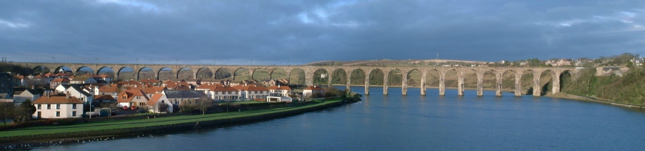 Royal Border Bridge across the Tweed between Berwick-upon-Tweed and Tweedmouth. Panoramic image created from two own digital photos using hugin and enblend.